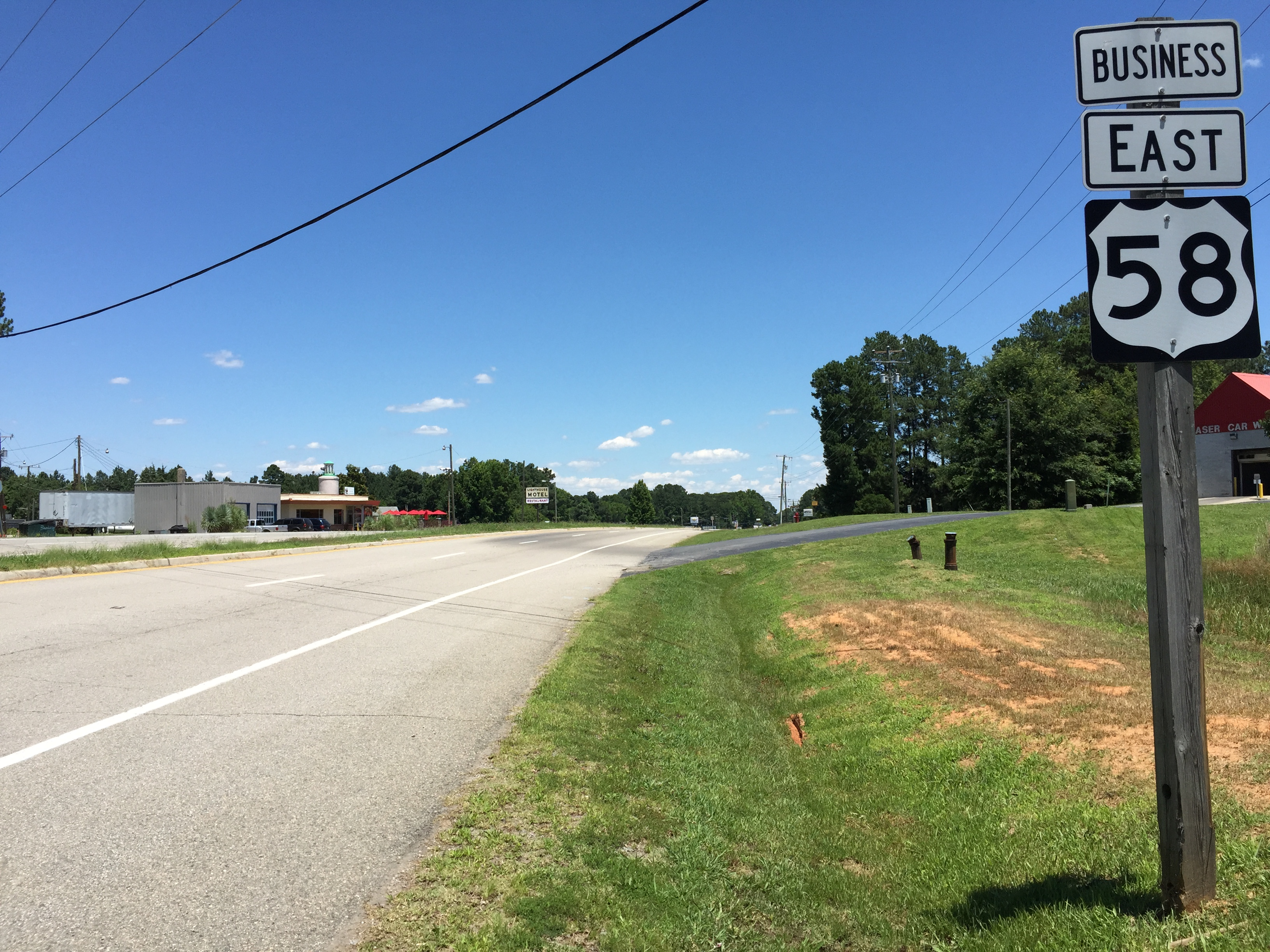 View east along U.S. Route 58 Business (Virginia Avenue) at Buffalo Road (Virginia State Secondary Route 1133) in Puryear Corner, Mecklenburg County, Virginia